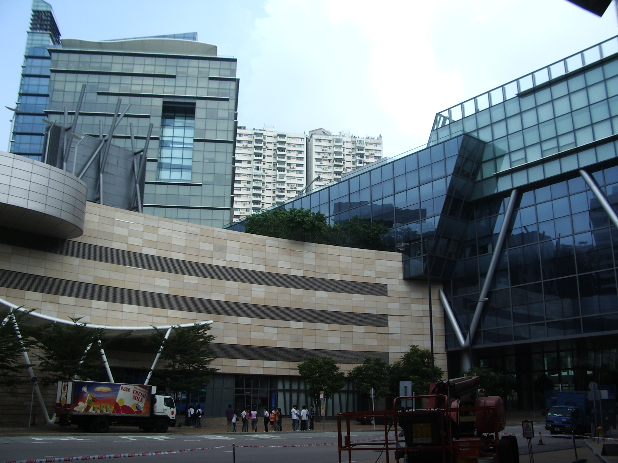 Cyberport 2 and bridge above Cyberport Road. Baguio Villa is visible behind. Viewing from plaza in front of The Arcade, Cyberport, Telegraph Bay, Pokfulam, Hong Kong. Taken on 14 October 2005 by Carlsmith.